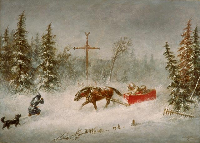 The Blizzard